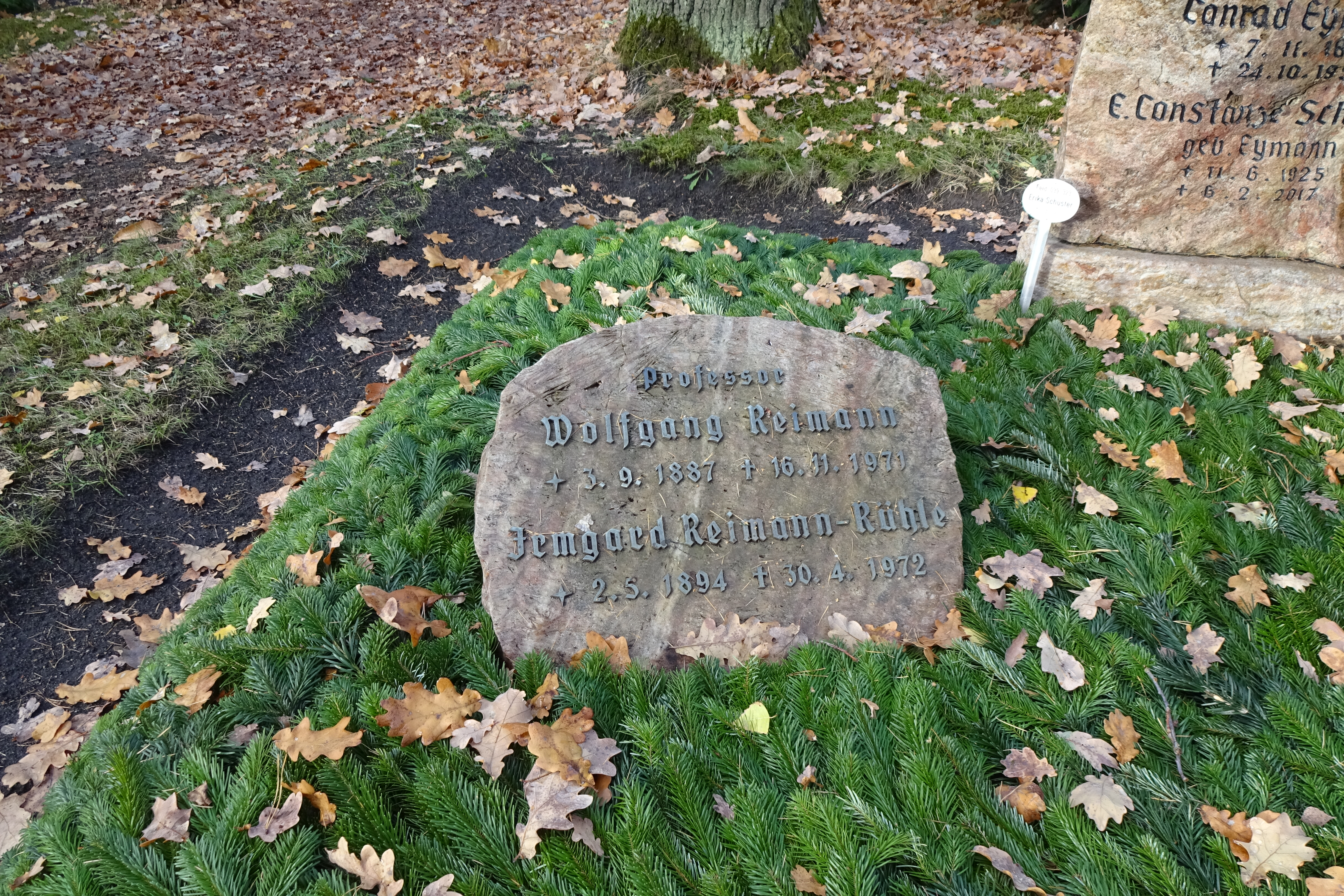 Grave of musician Wolfgang Reimann at Waldfriedhof Zehlendorf in Berlin